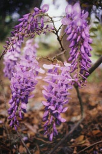 Flowering Wisteria